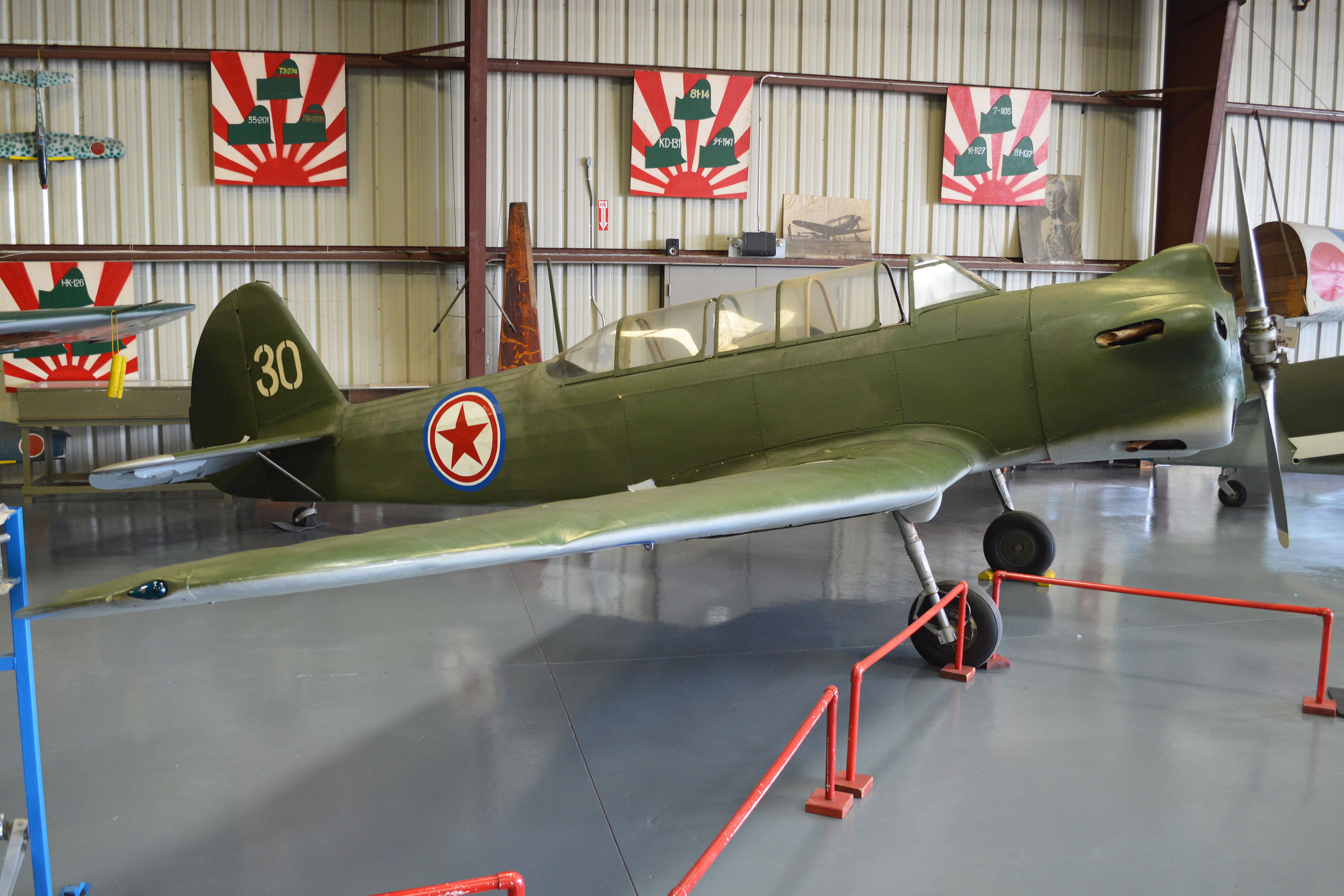 c/n 14-320-30. Ex Chinese Air Force, but now wearing Yugoslavian Air Force markings and on display in the ‘Foreign’ hangar at the Planes of Fame Museum, Chino, California, USA. 28-2-2016